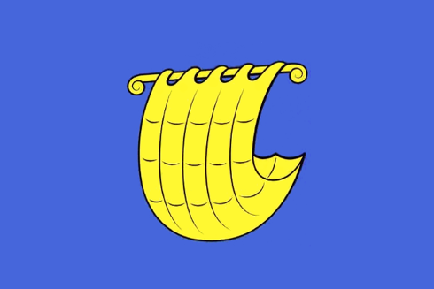 Flag of town Radenín, Tábor District, Czech Republic